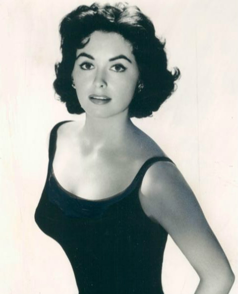 Publicity photo of Peggy Connelly.